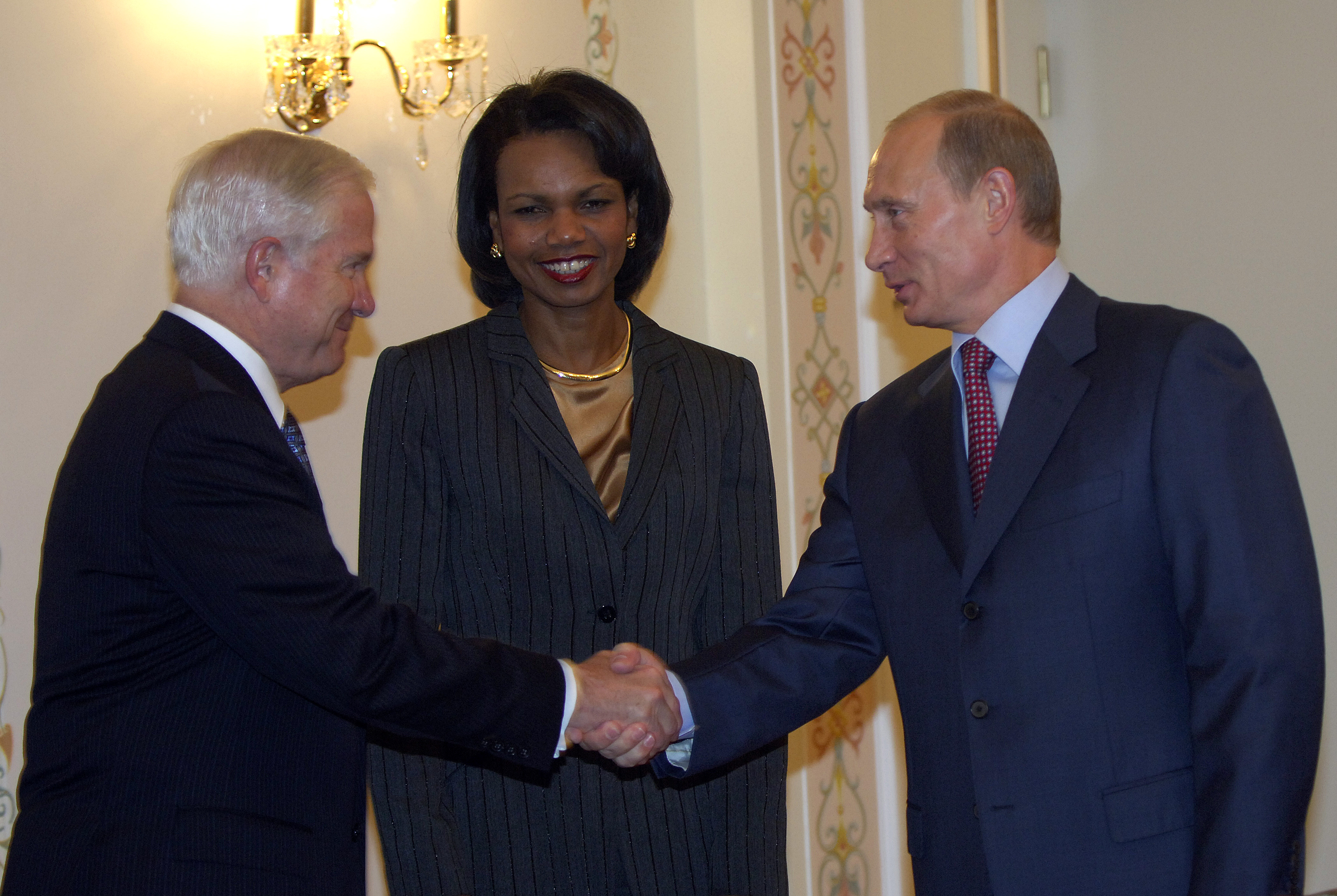 U.S. Defense Secretary Robert M. Gates greets Russian President Vladimir Putin as U.S. Secretary of State Condoleezza Rice looks on in Moscow, Oct. 12, 2007.